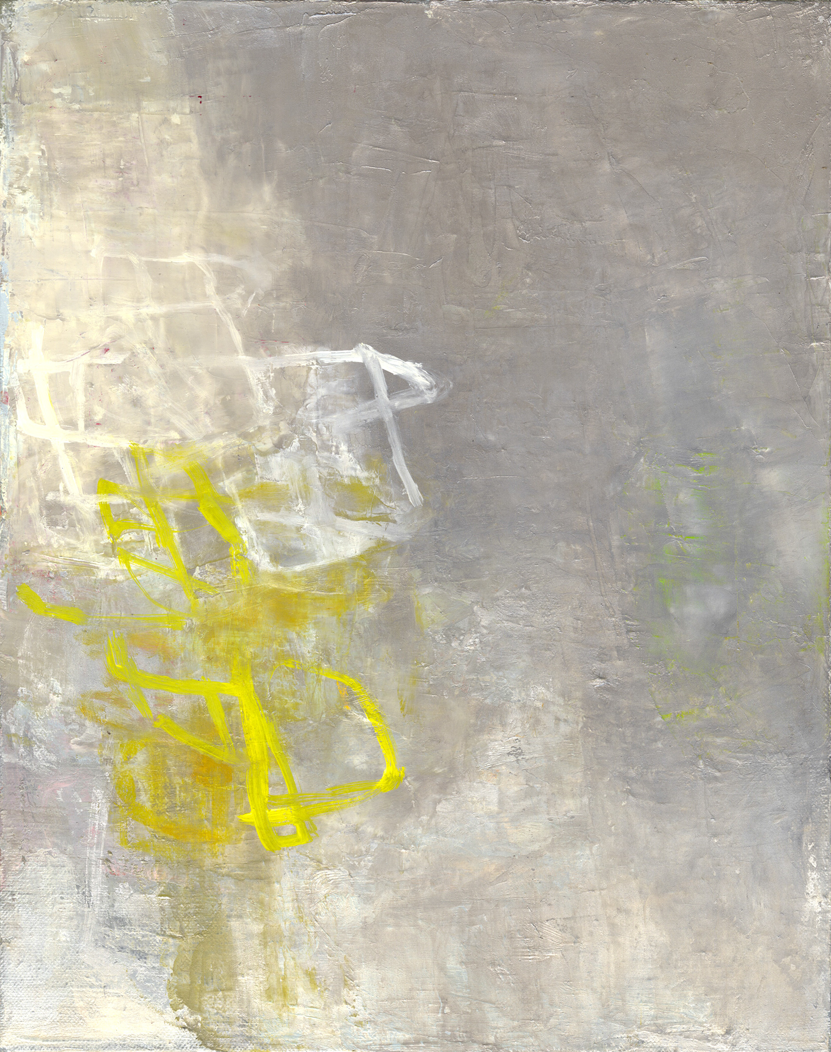 Oil on Linen 14"x11" 2015